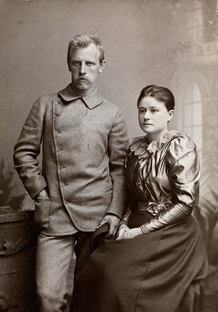 Portrait of Fridtjof Nansen and wife Eva Nansen.